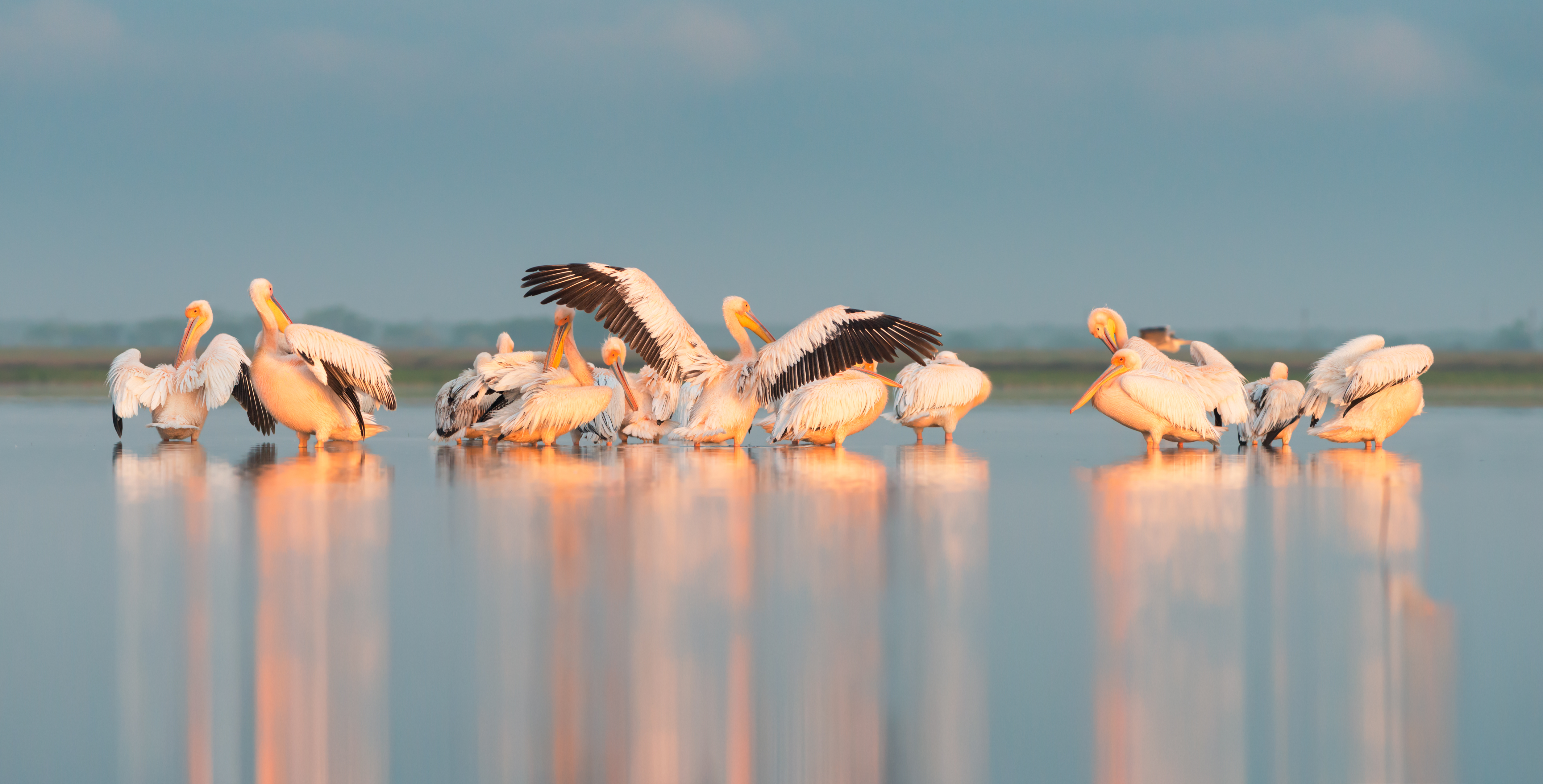 Pink pelicans (Pelecanus onocrotalus). Odessa region